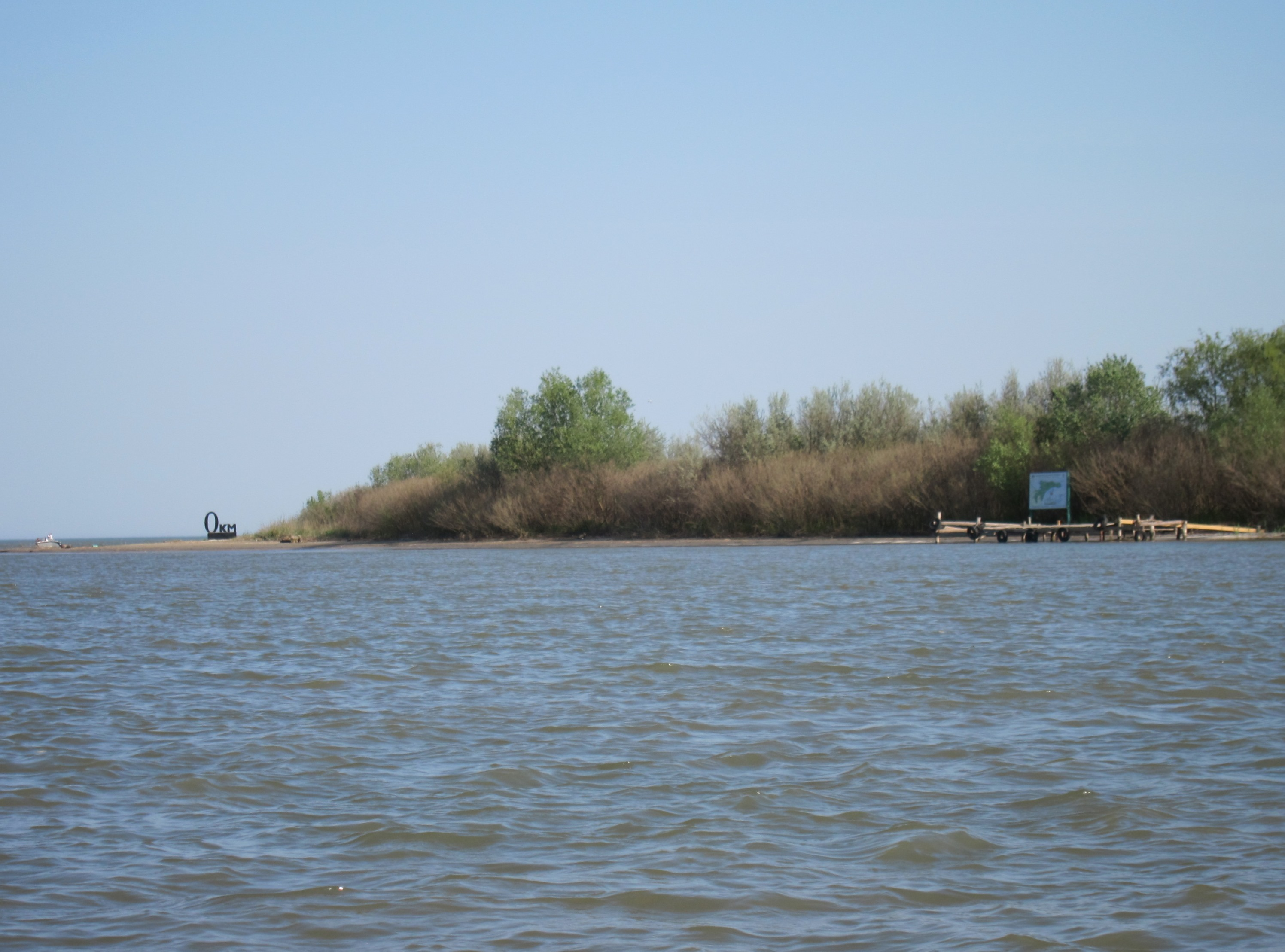 Ukrainian Danube Biosphere Reserve. Ankudinov island, Danube Delta (near Vylkove, Odessa Oblast, Ukraine)